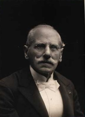 Julius Magnus Petersen (1827-1917), Danish archaeologist